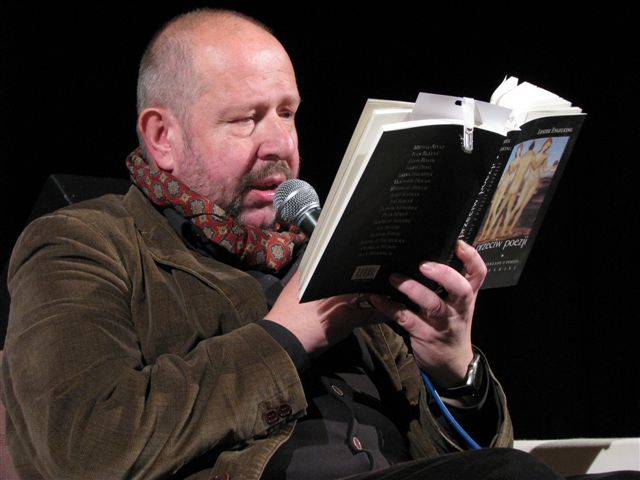 Leszek Engelking (b. February 2, 1955 in Bytom, Poland) – Polish poet, short-story writer, critic, essayist, scholar, and translator. He lives in Brwinów, Poland.